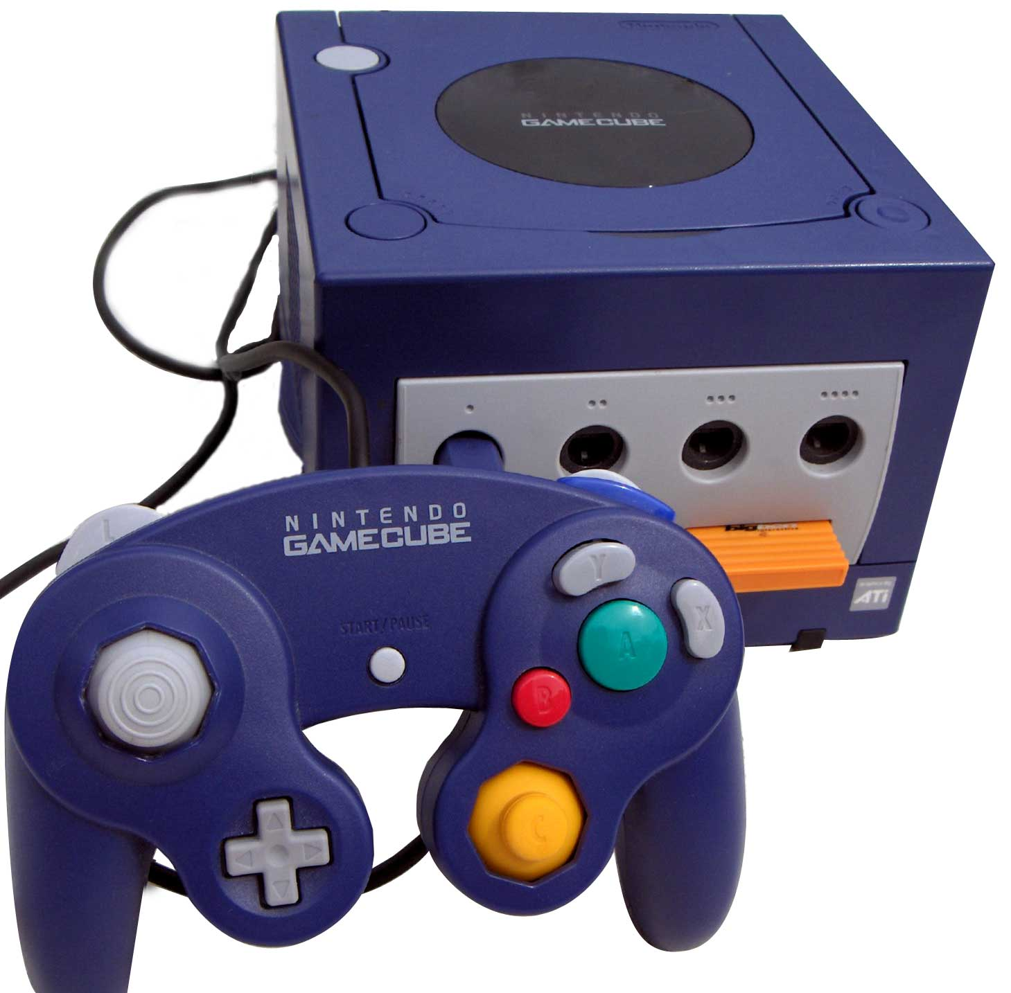 Photo of the Nintendo GameCube games console with controller and Memory card.